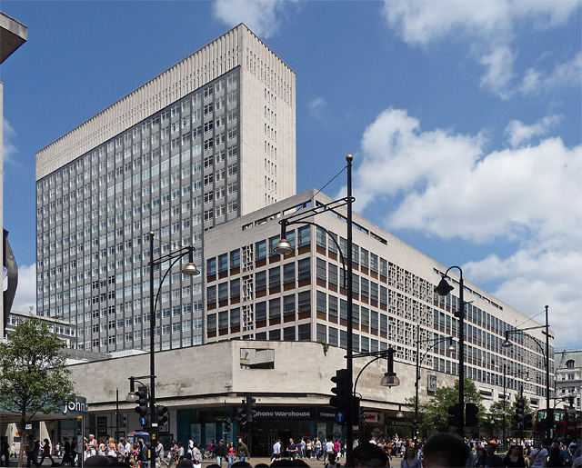 The college sits above the shops on Oxford Street, a long, low block with a stone grid and rectilinear, abstract patterns that are very redolent of the 1960s. The building was designed by the London County Council's Architects' Department in 1962-63. The tower to the left is part of an extensive complex occupying the whole of the rest of the block including offices and the shops facing Oxford Street. It was designed by T.P. Bennett & Son in 1957-62.